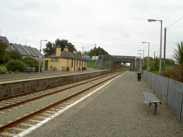 Rosslare Strand Railway Station Rosslare Strand services the nearby town of Rosslare. There are 3 intercity services a day to Dublin Connolly and 1 service to Limerick via Waterford.